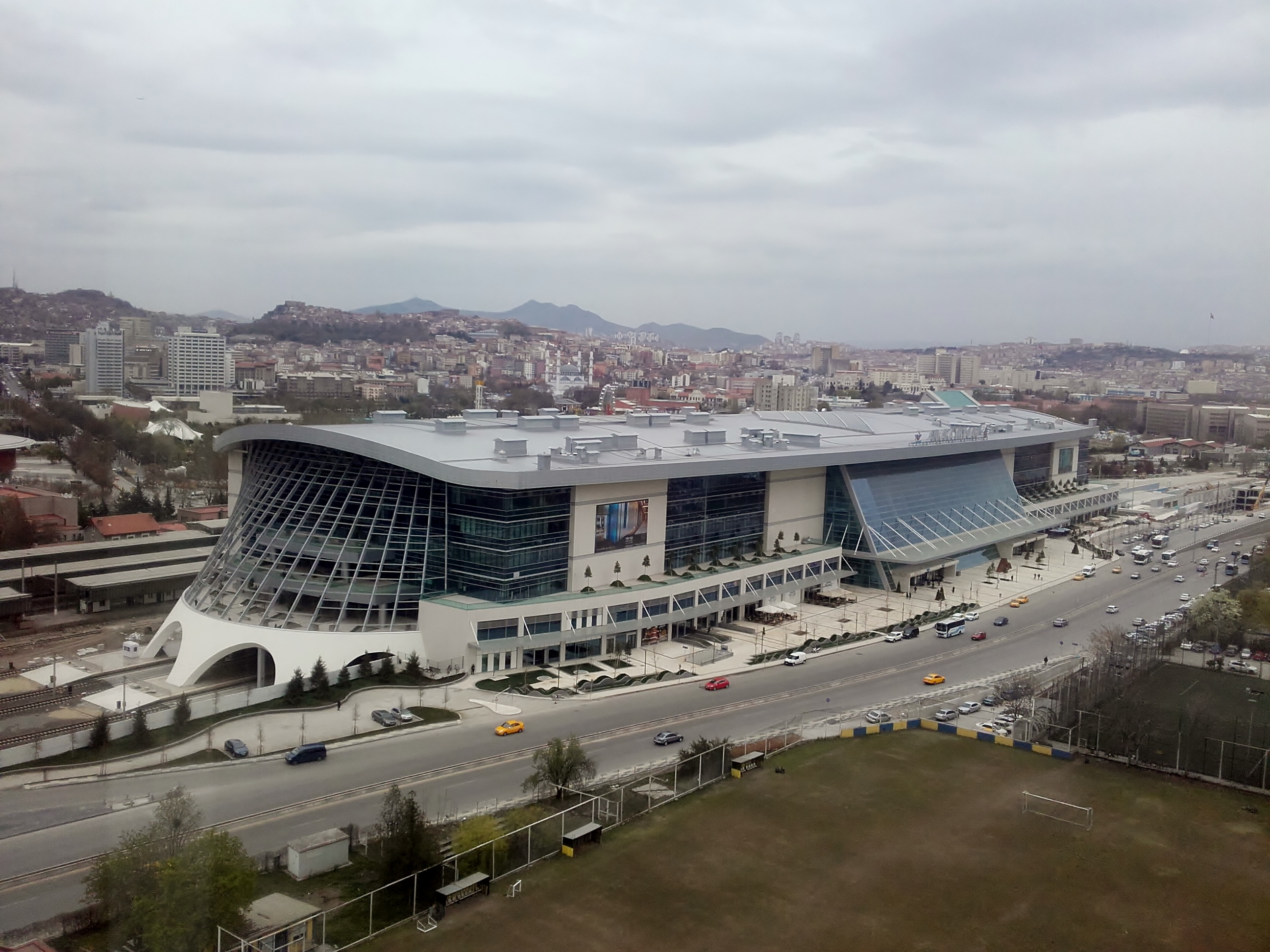 New Ankara Train Station, 2017